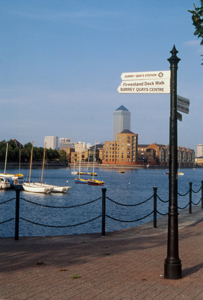 Greenland Dock, Surrey Quays, London, around 1995(?). Courtesy of Southwark Photo Library - .